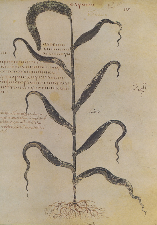 elumos folio 117r